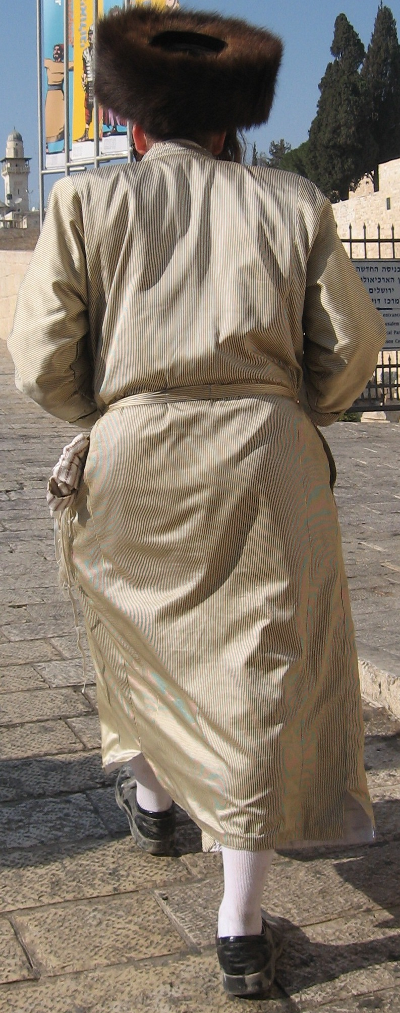 Based on[1]